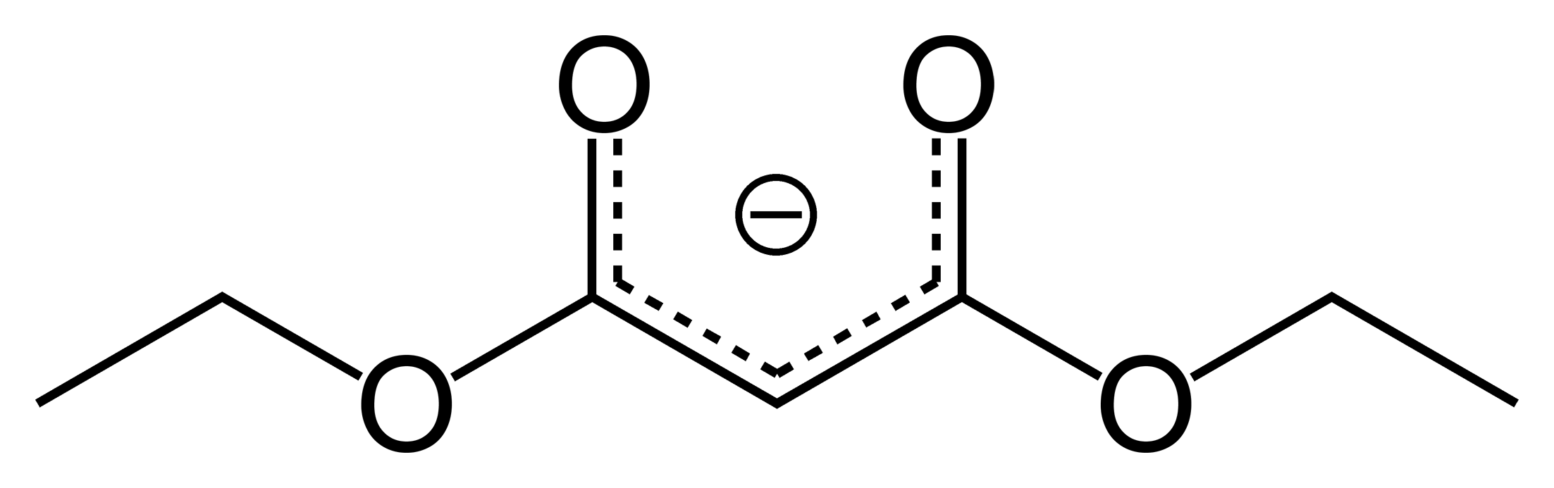 Structural formula of the carbanion formed when diethyl malonate loses the proton bonded to the carbon atom between its two carbonyl groups. Self made in ChemDraw and Photoshop by Ben. Benjah-bmm27 22:39, 5 March 2006 (UTC)